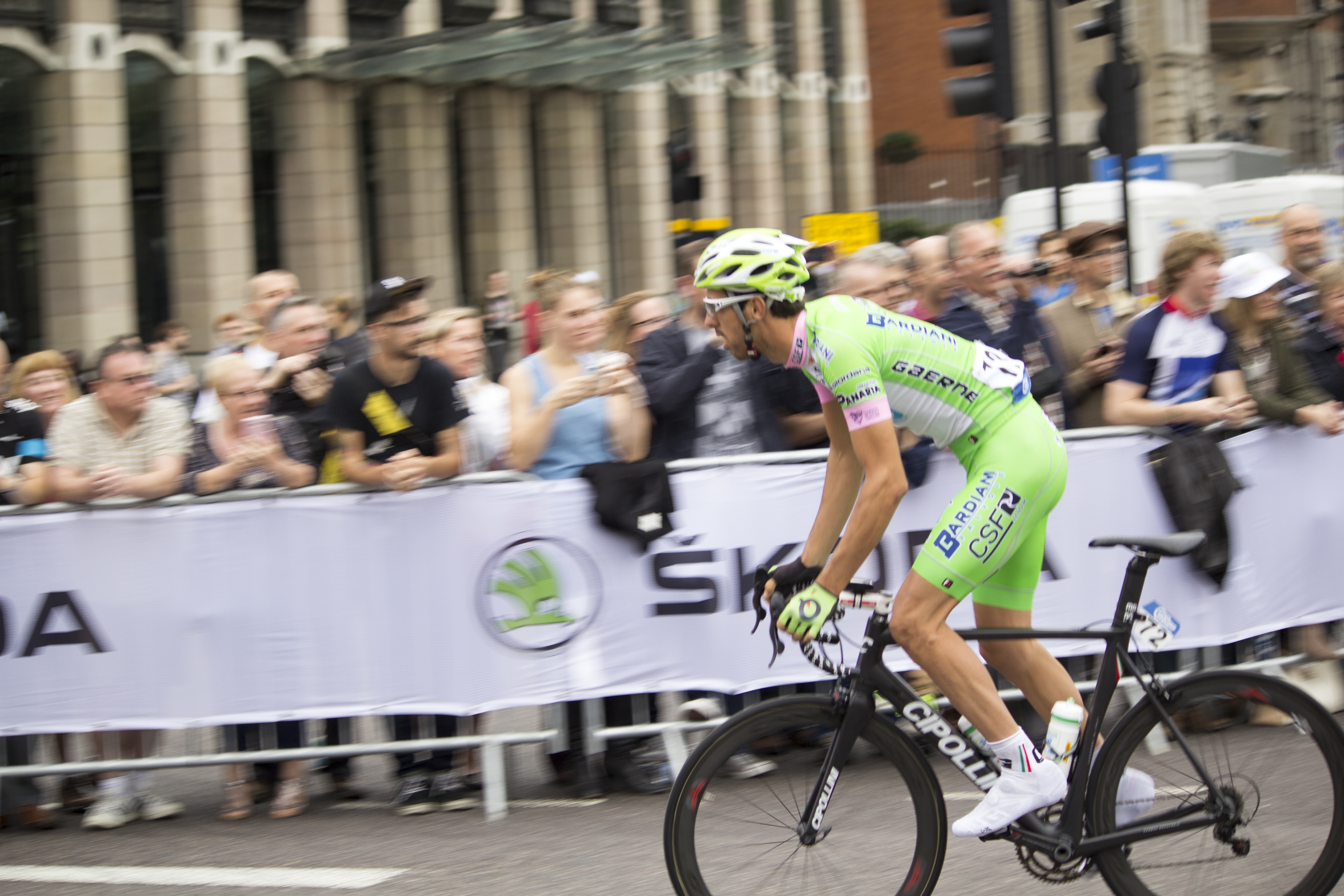 Tour of Britain 2013 stage 8